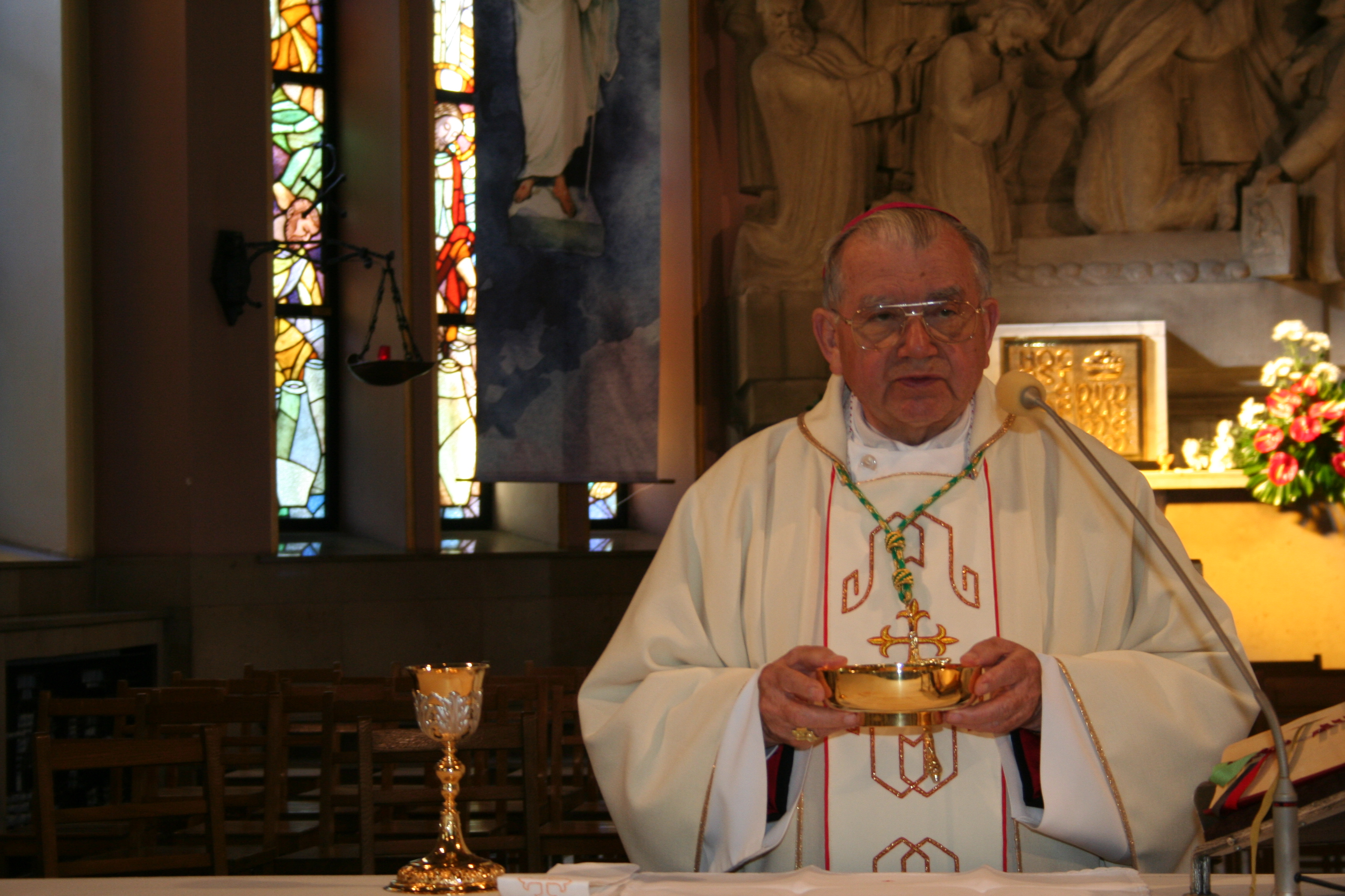 Bishop Alojzy Orszulik, Pallottine.